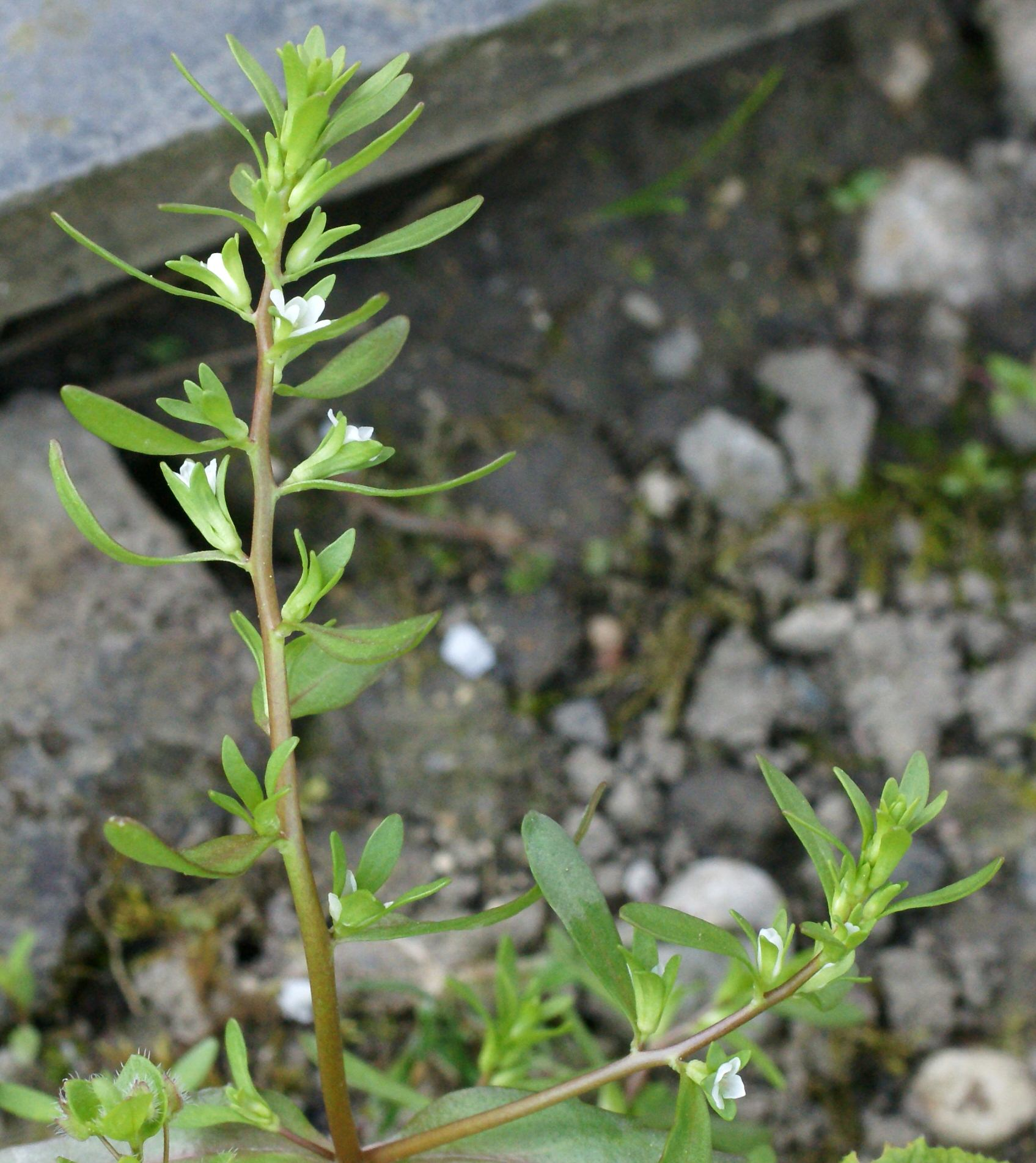 Veronica peregrina, found in a garden at Kirchheim/Teck (Germany)